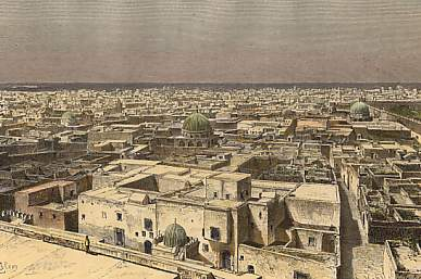 Wood engraving drawn by A. Slom, engraved by A. Kohl. 1886. 19x13cm.